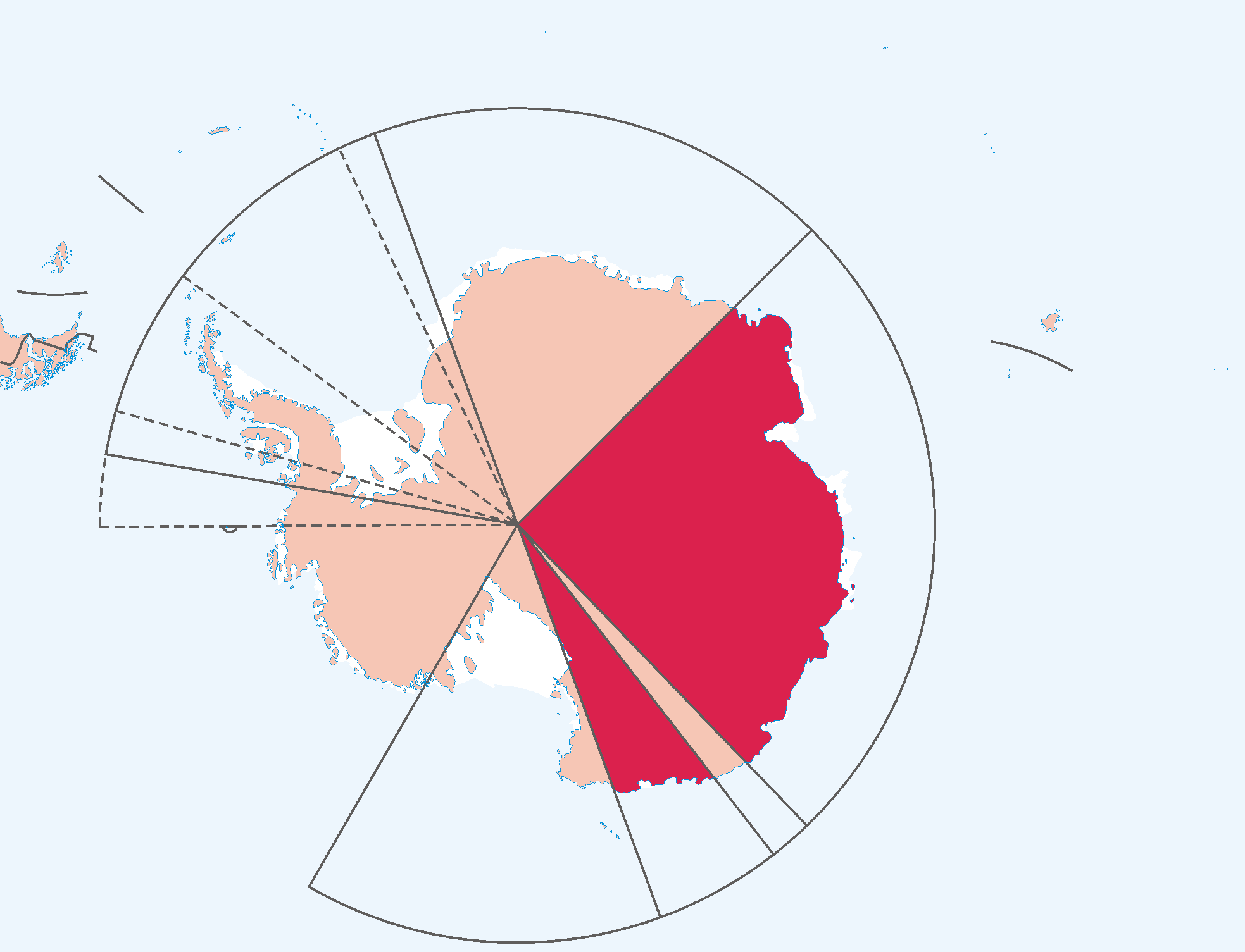 Antarctic territories: Australian Antarctic Territory